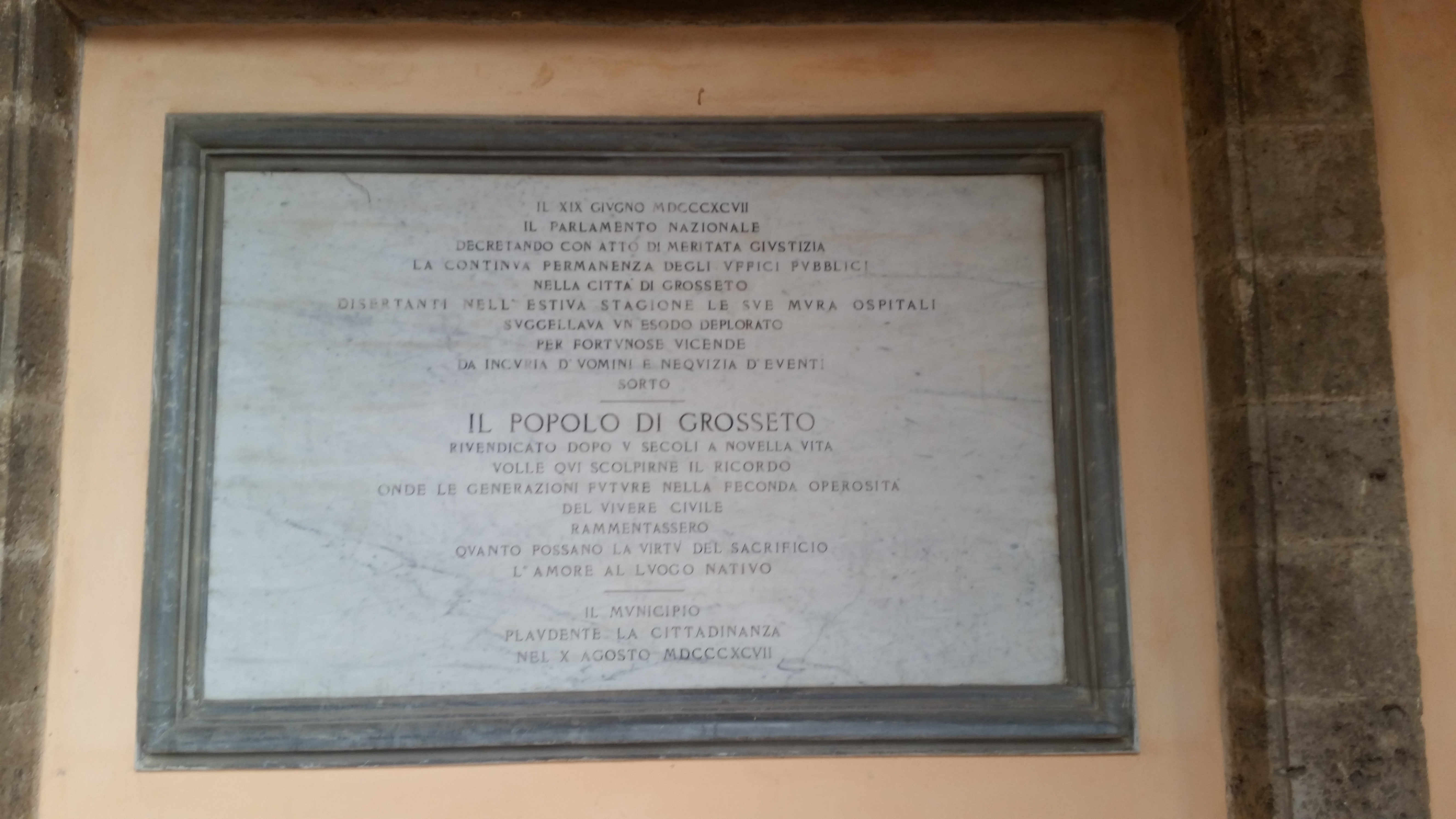 Plaque in Grosseto, Italy